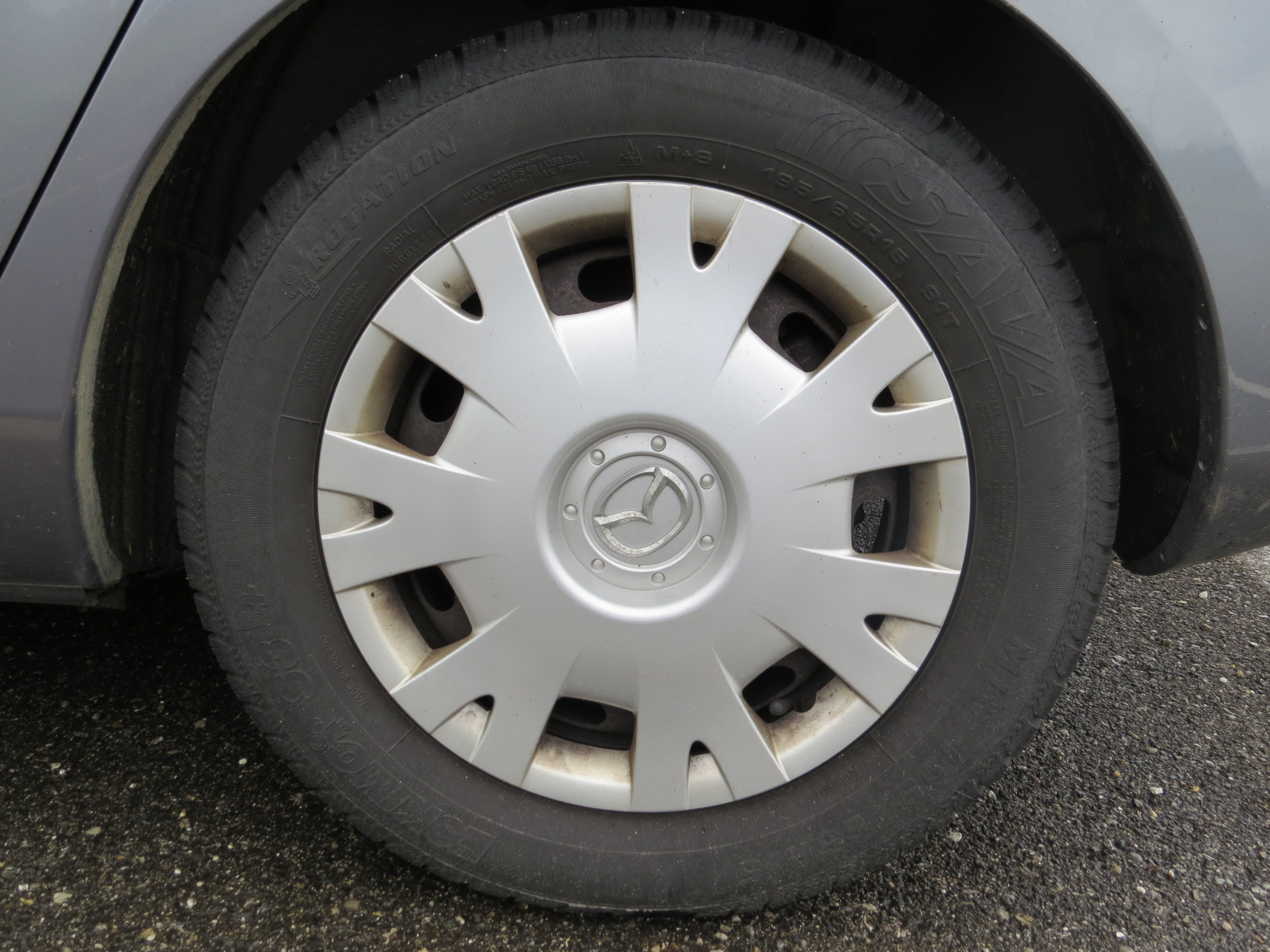 Sava Eskimo S3+ 195/65 R 15 91 T tire at Bahnhof Ybbs an der Donau